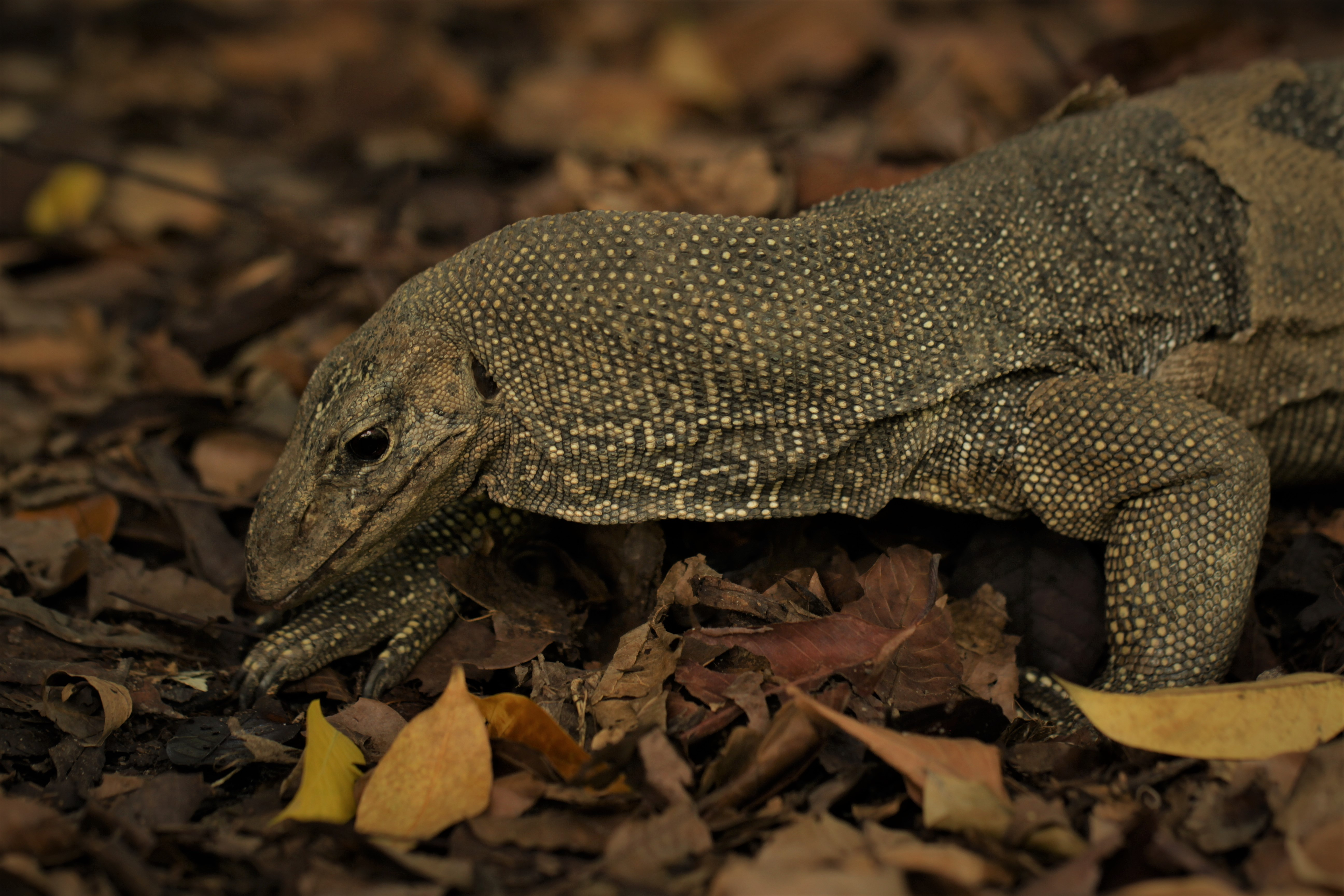 A clouded monitor (Varanus nebulosus) in Singapore Botanic Gardens hunting for worms and other edibles under leaves on New Years Day 2020. From head to tail, monitor was about 1.5 meters long. Photo taken under the shade of trees. Photo taken from about 2 meters away. The creature is accustomed to humans and was totally uninterested in my presence.